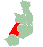 Morondava District boundaries